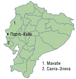 Localization of Valdivia culture